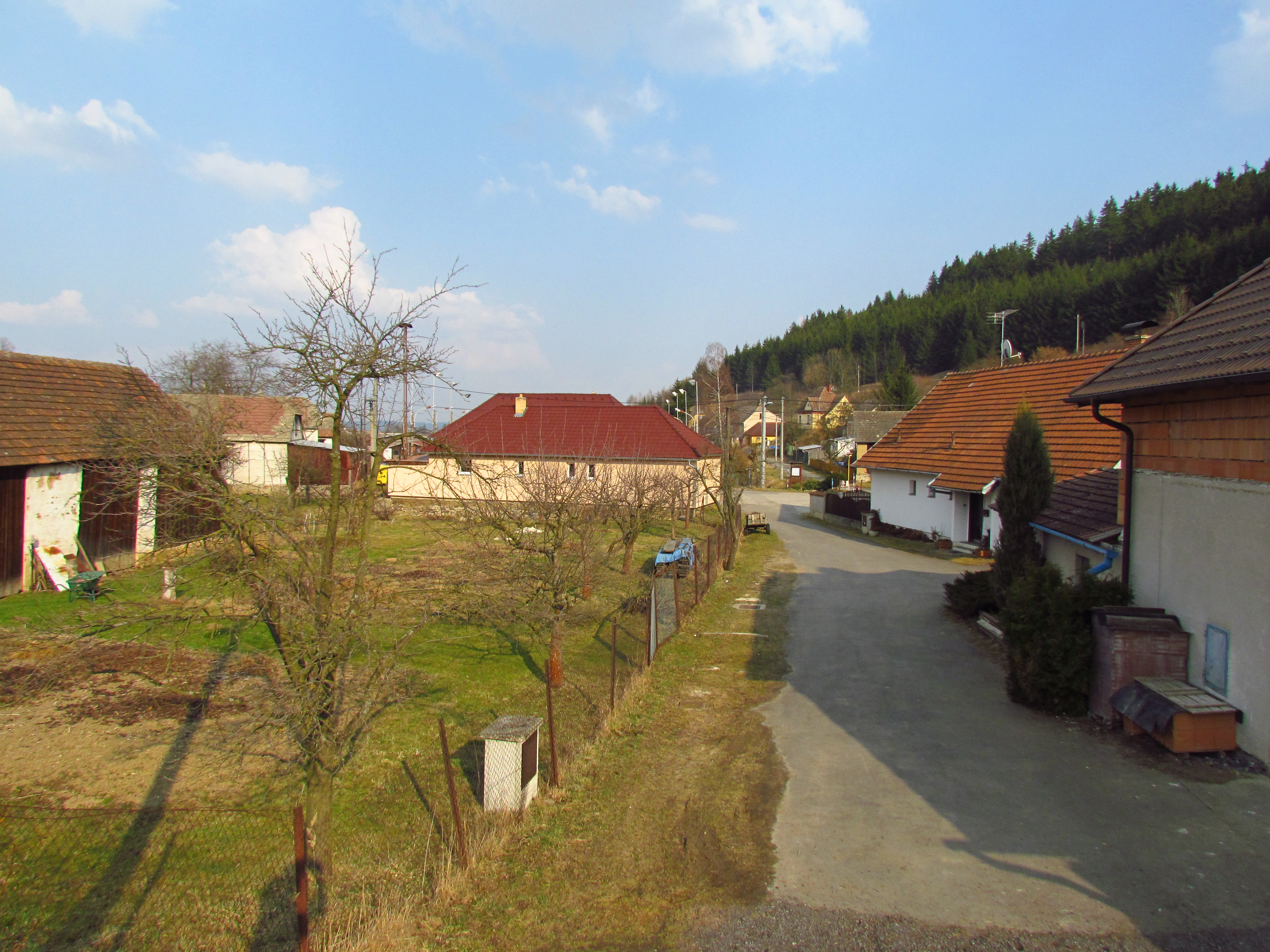 Center of Pokojovice, Třebíč District.